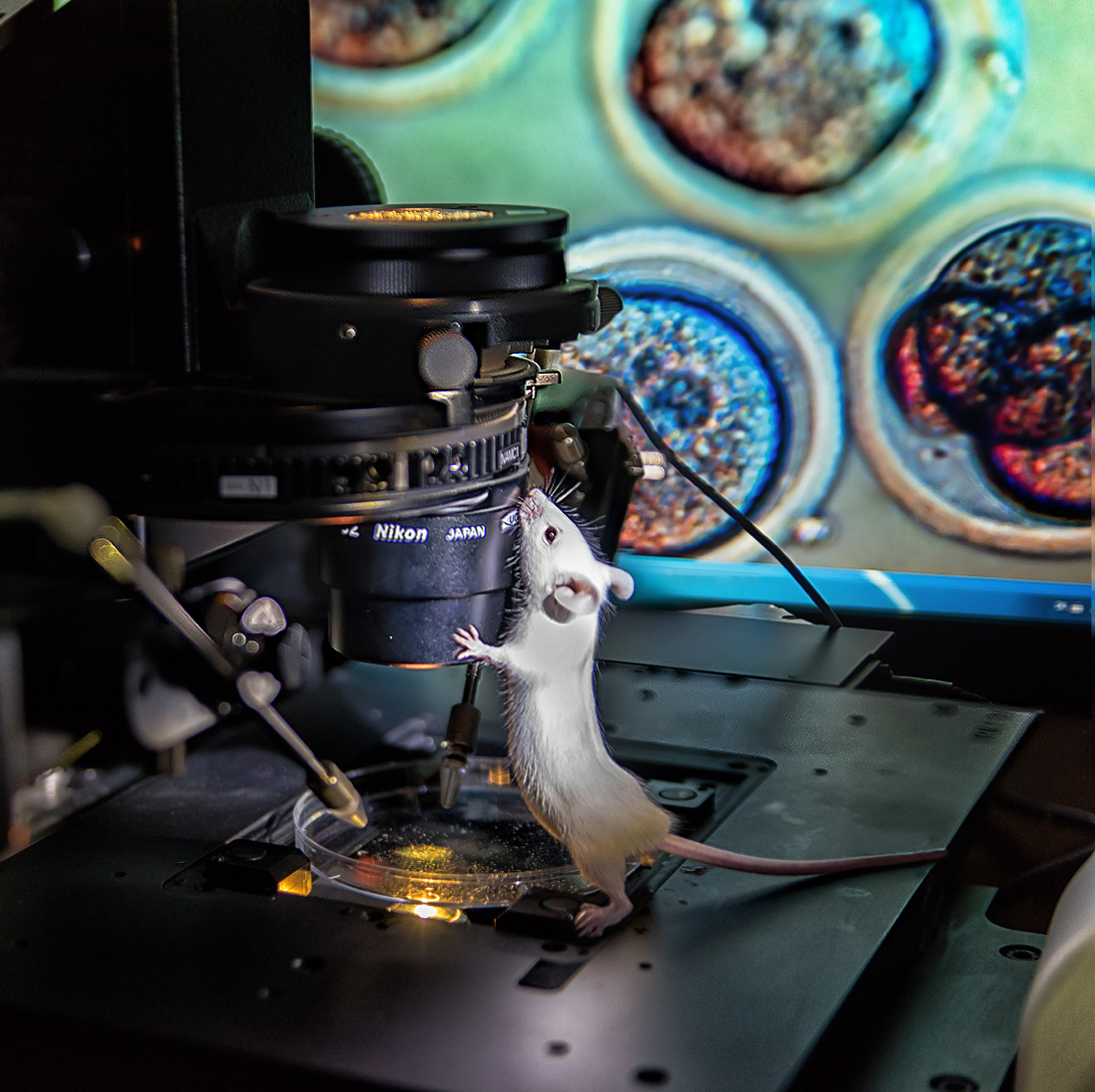 Progress in science would be not able without these kind creatures, so I would like to thank them.